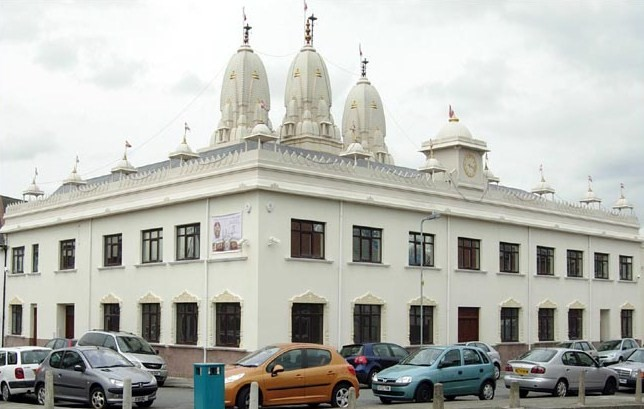 Image of the exterior of the Swaminarayan temple in Cardiff